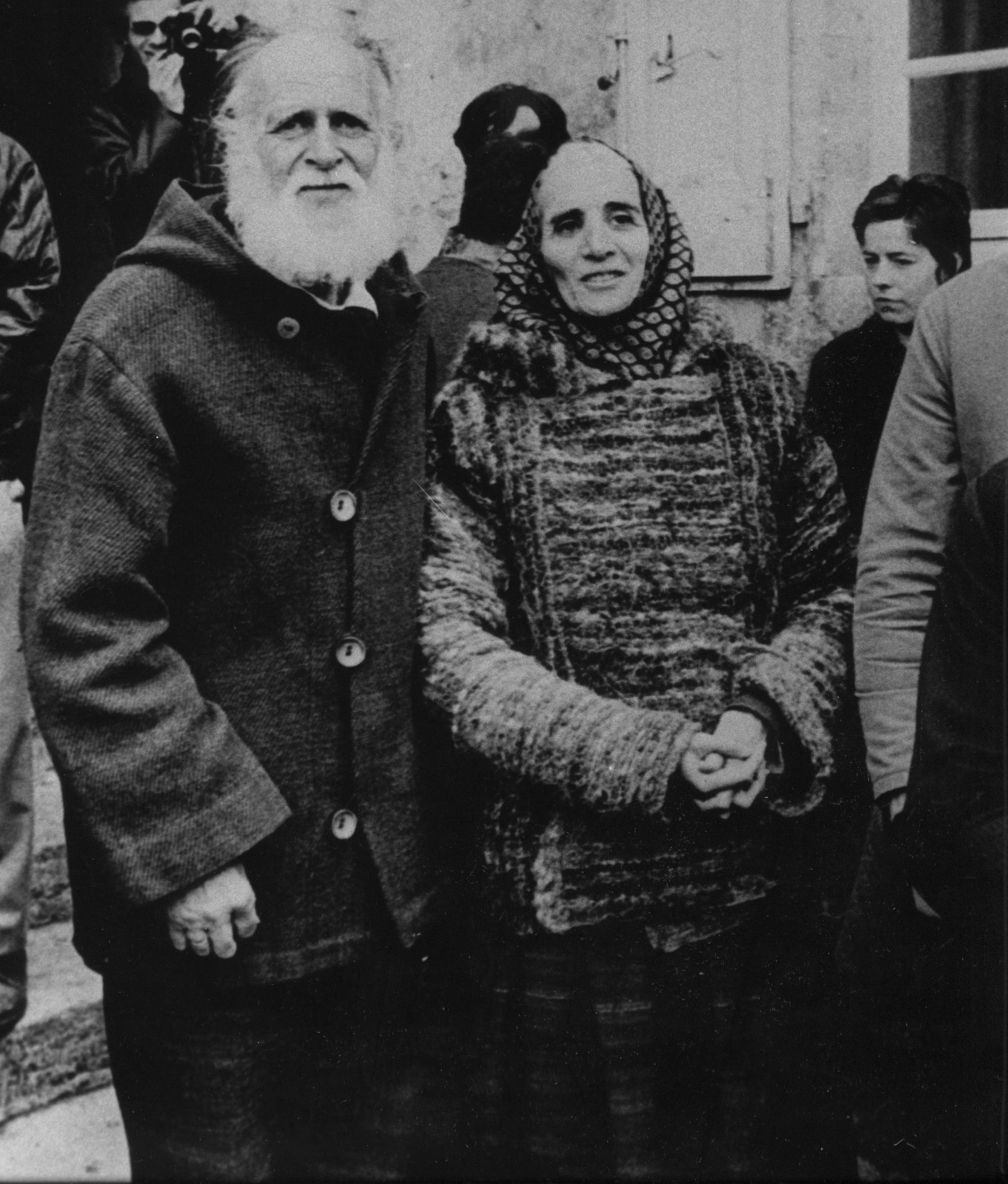 Lanza del Vasto and his wife Chanterelle in 1975, at the time of Lanza's fast in Larzac.